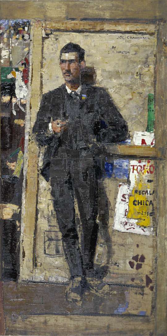 Joseph Crawhall